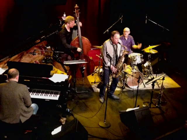 Andy Middleton with Adam Nussbaum, Kálmán Oláh and Morten Ramsbøl